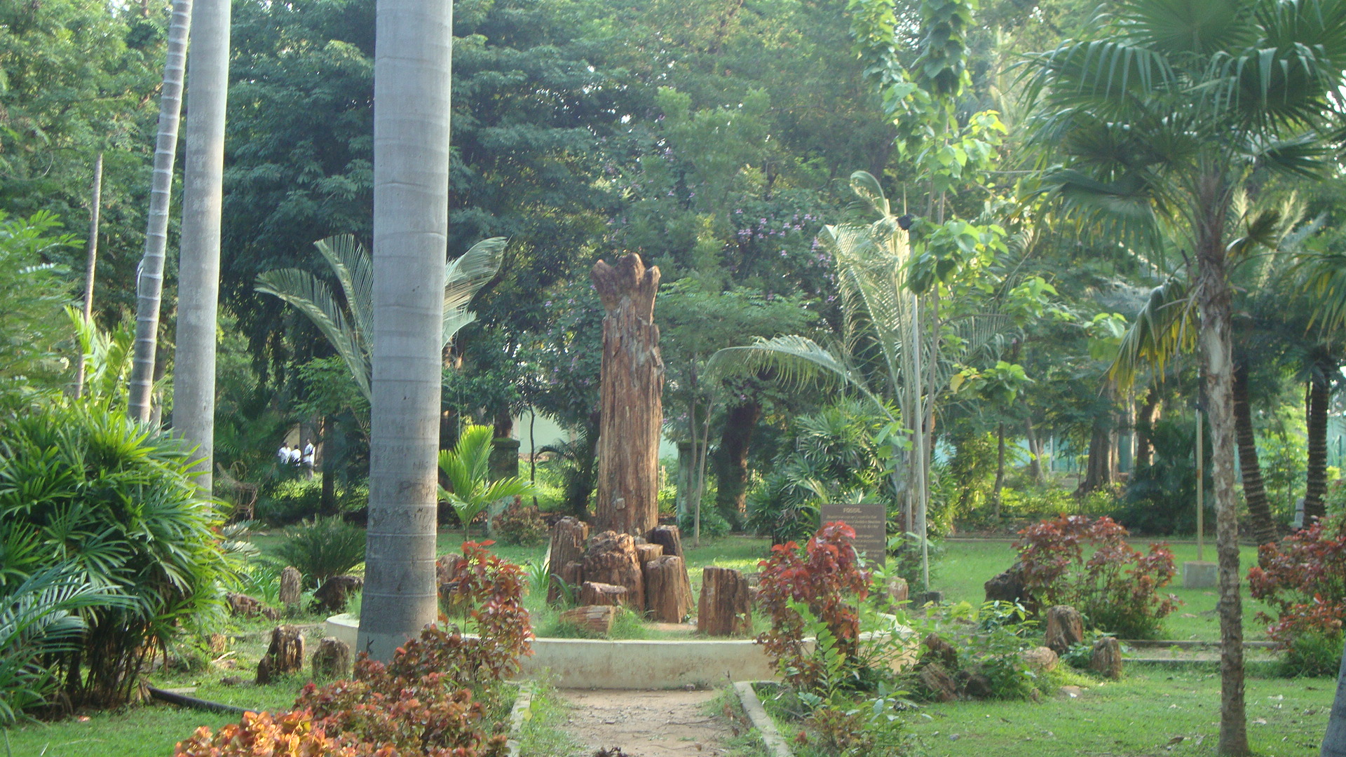 stone tree fossil in botanical garden,puducherry,india